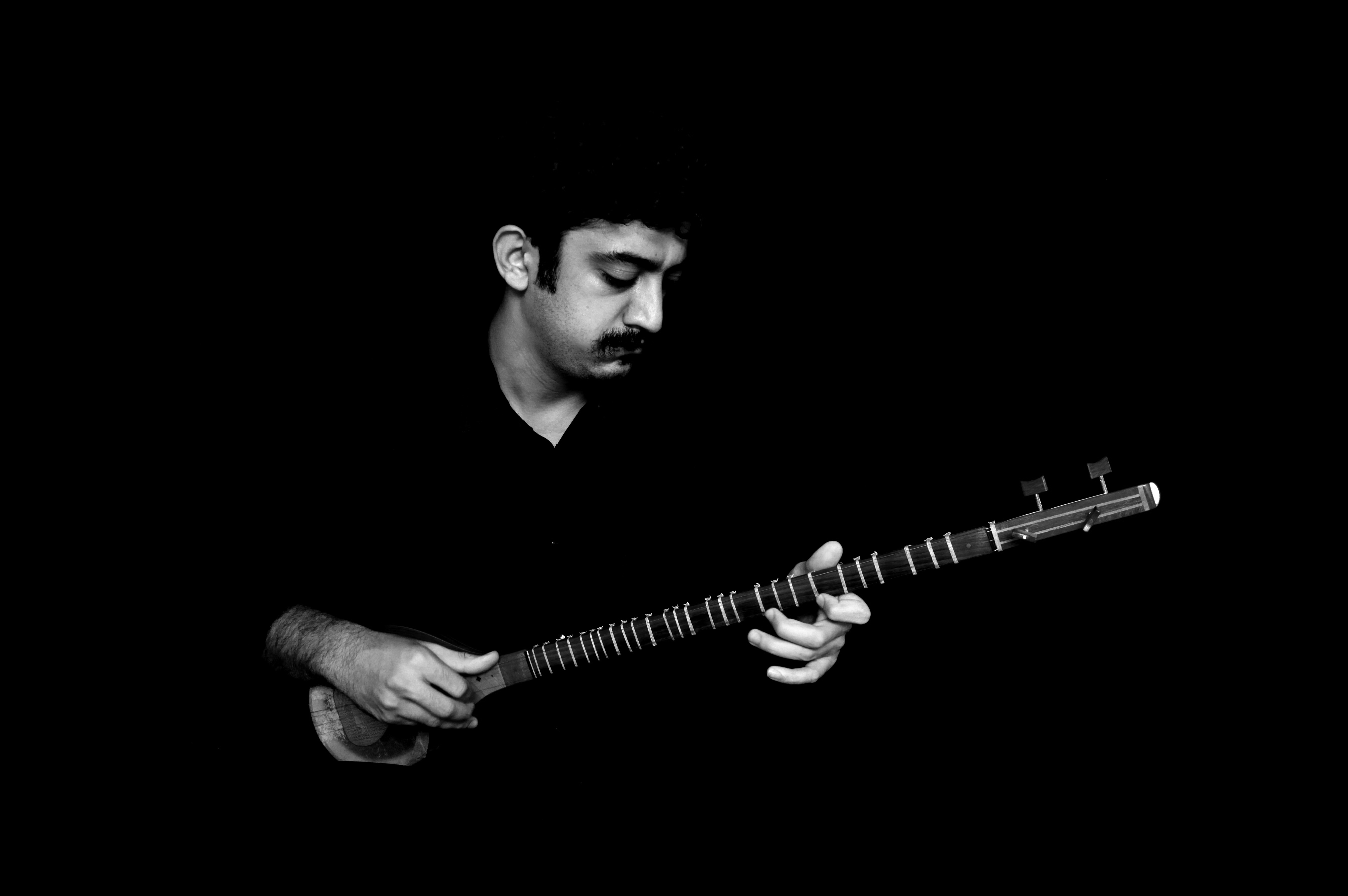 Mehdi rajabian setar مهدی رجبیان سه تار نوازی